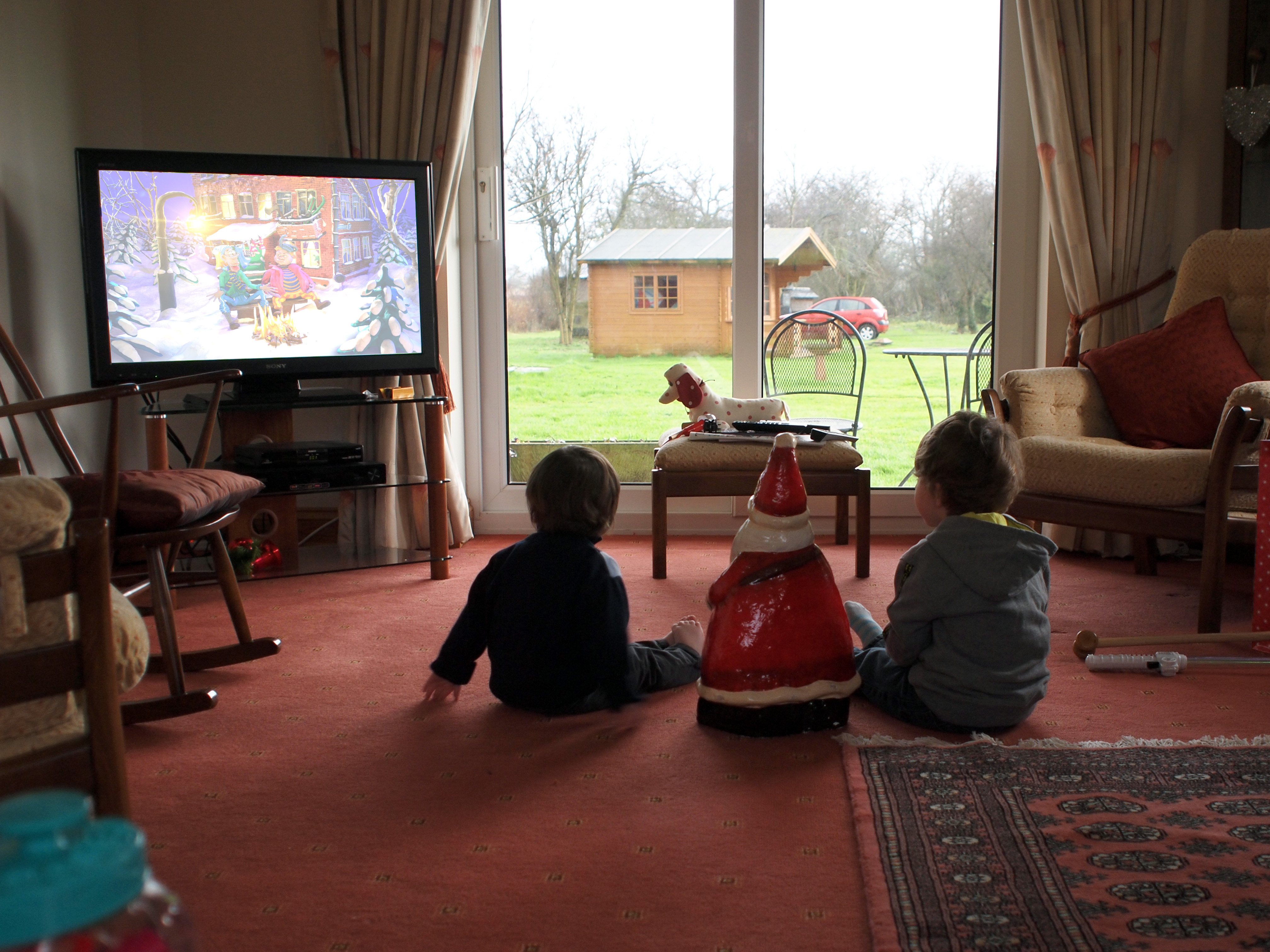 The boys took Santa to watch TV. English | Polski | +/−